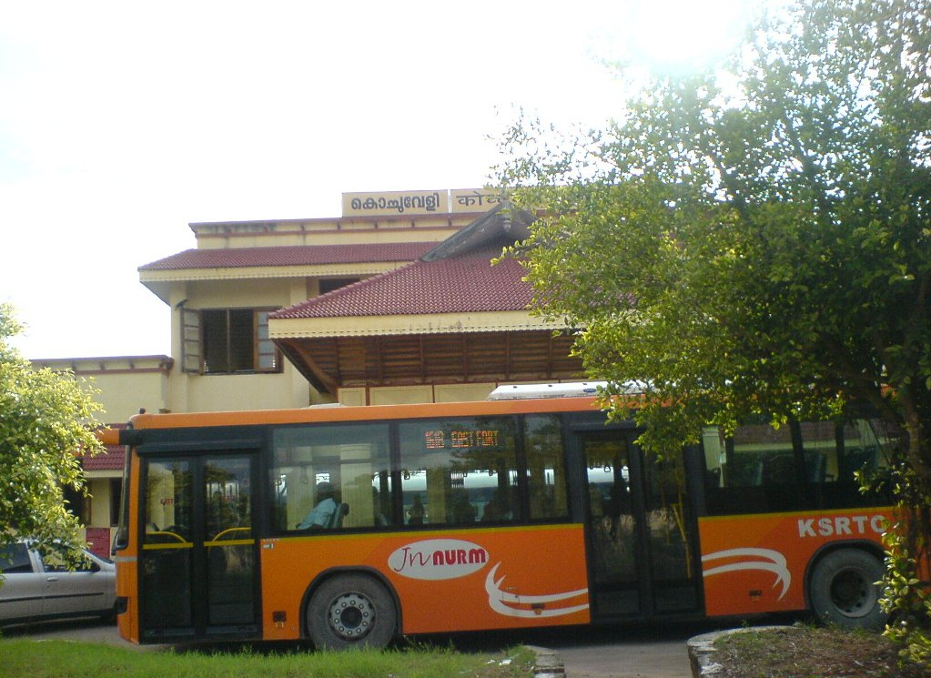 Kochuveli Railway station in Thiruvananthapuram city, Kerala, India.